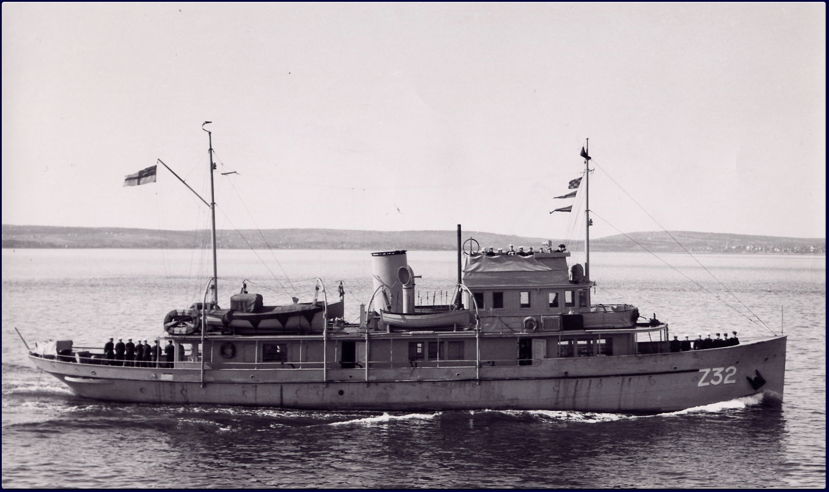 HMCS Ambler, date unknown, possibly near Halifax, Nova Scotia.